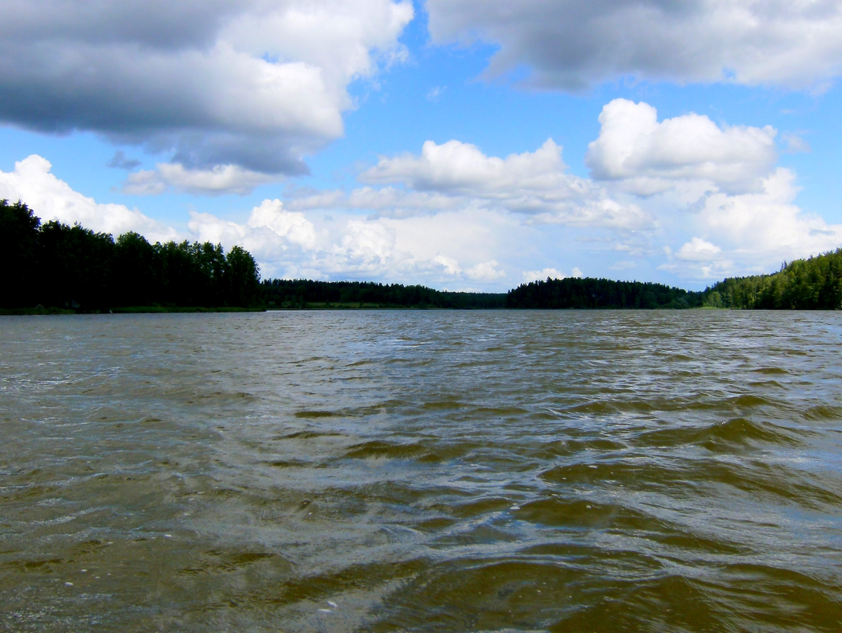 The lake "Poikkipuoliainen" in Vihti, Finland; view to north